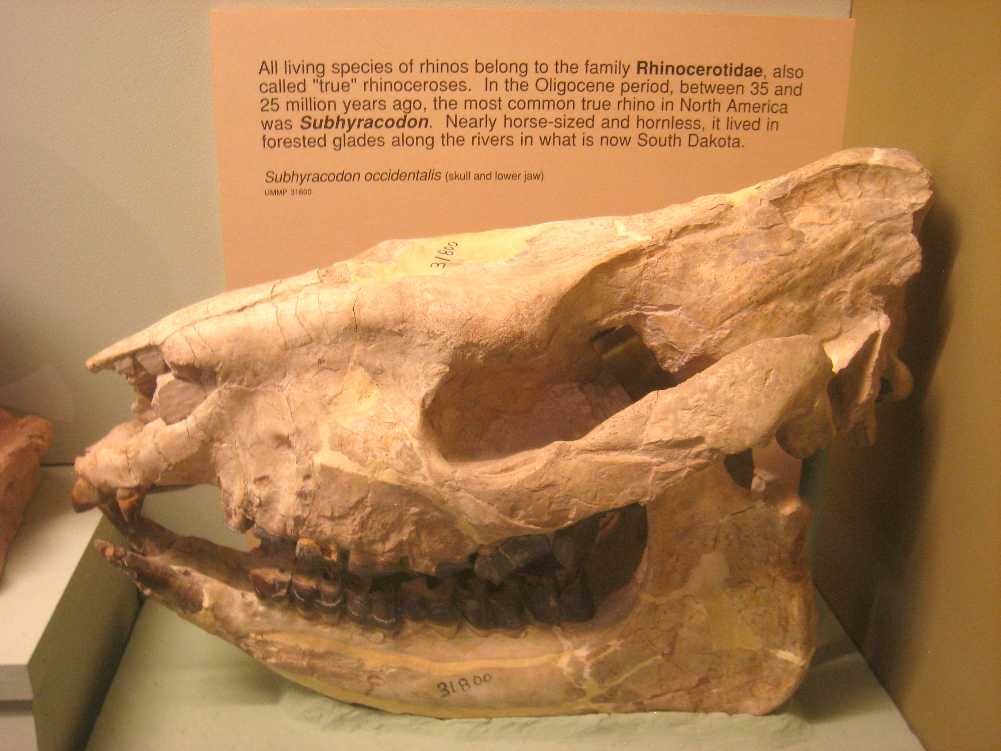 Subhyracodon occidentalis skull and lower jaw. Exhibit Museum of Natural History, University of Michigan, 1109 Geddes Avenue, Ann Arbor, Michigan, USA.